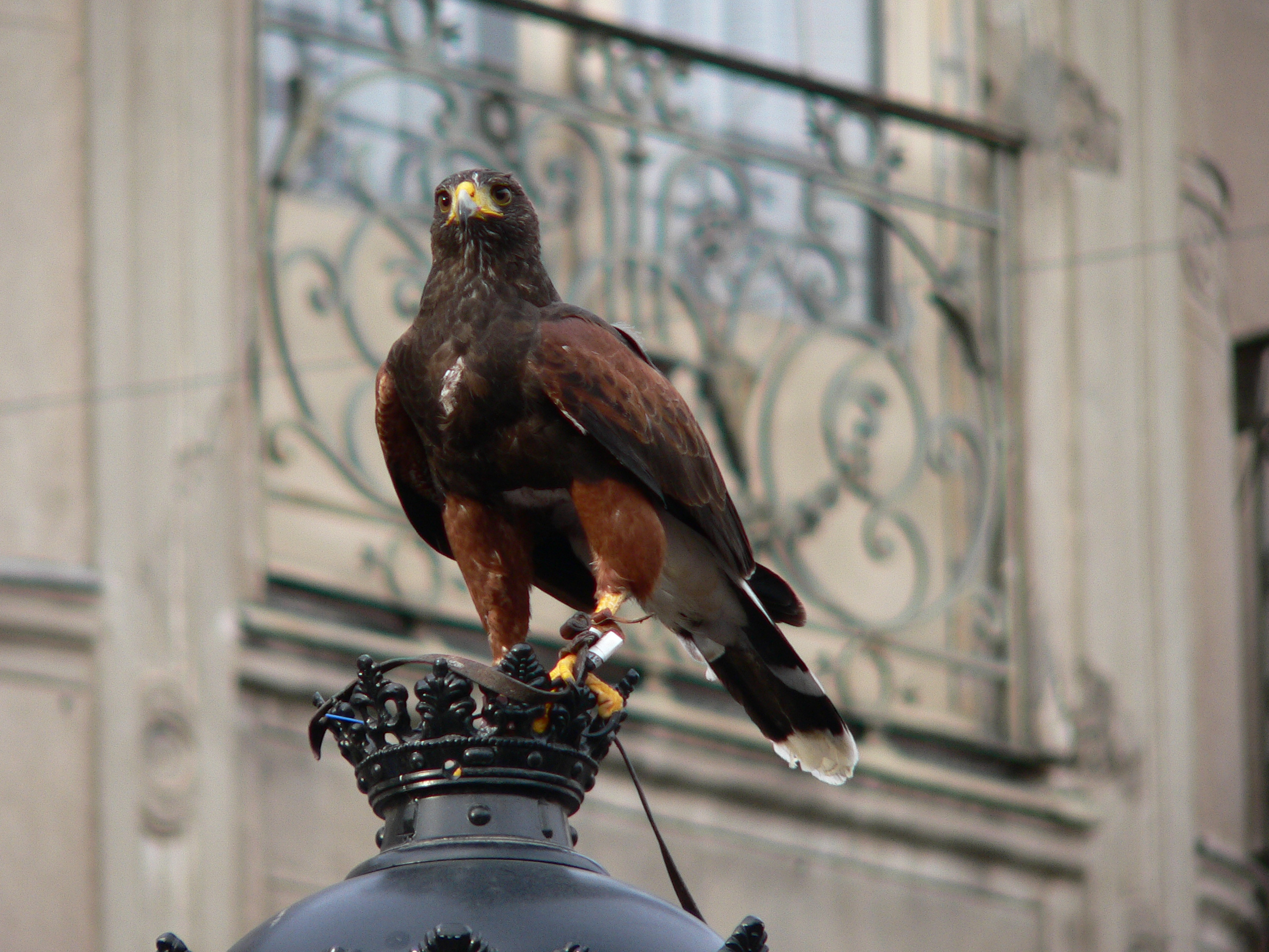 Description: Harris's Hawk Subject: Harris's Hawk, Parabuteo unicinctus, a New World bird used in falconry Place : Plaza de Cervantes City : Alcalá de Henares Country : Spain Photographer: © Manuel González Olaechea y Franco Shot date : October, 12th , 2005